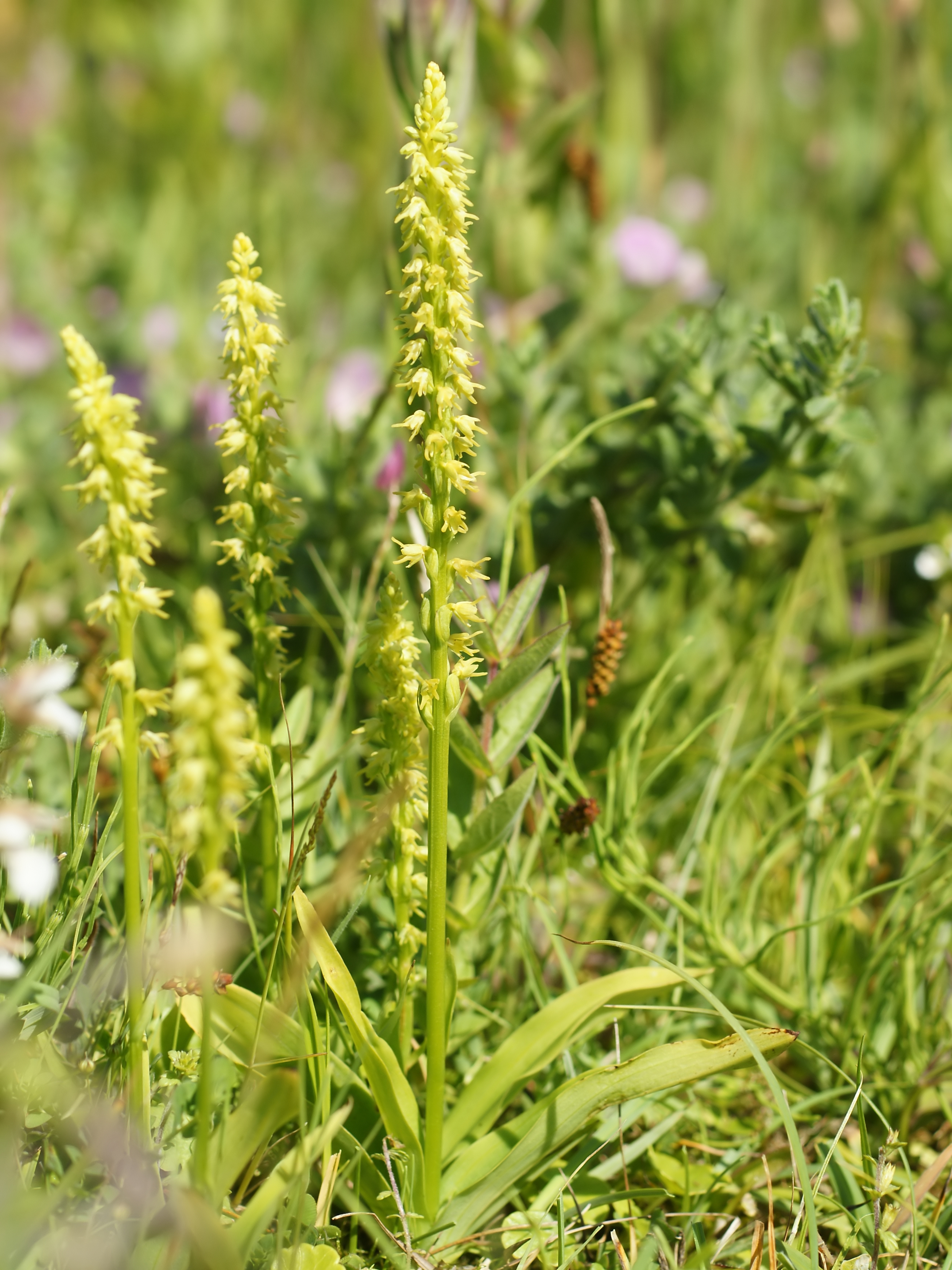 Musk Orchid.